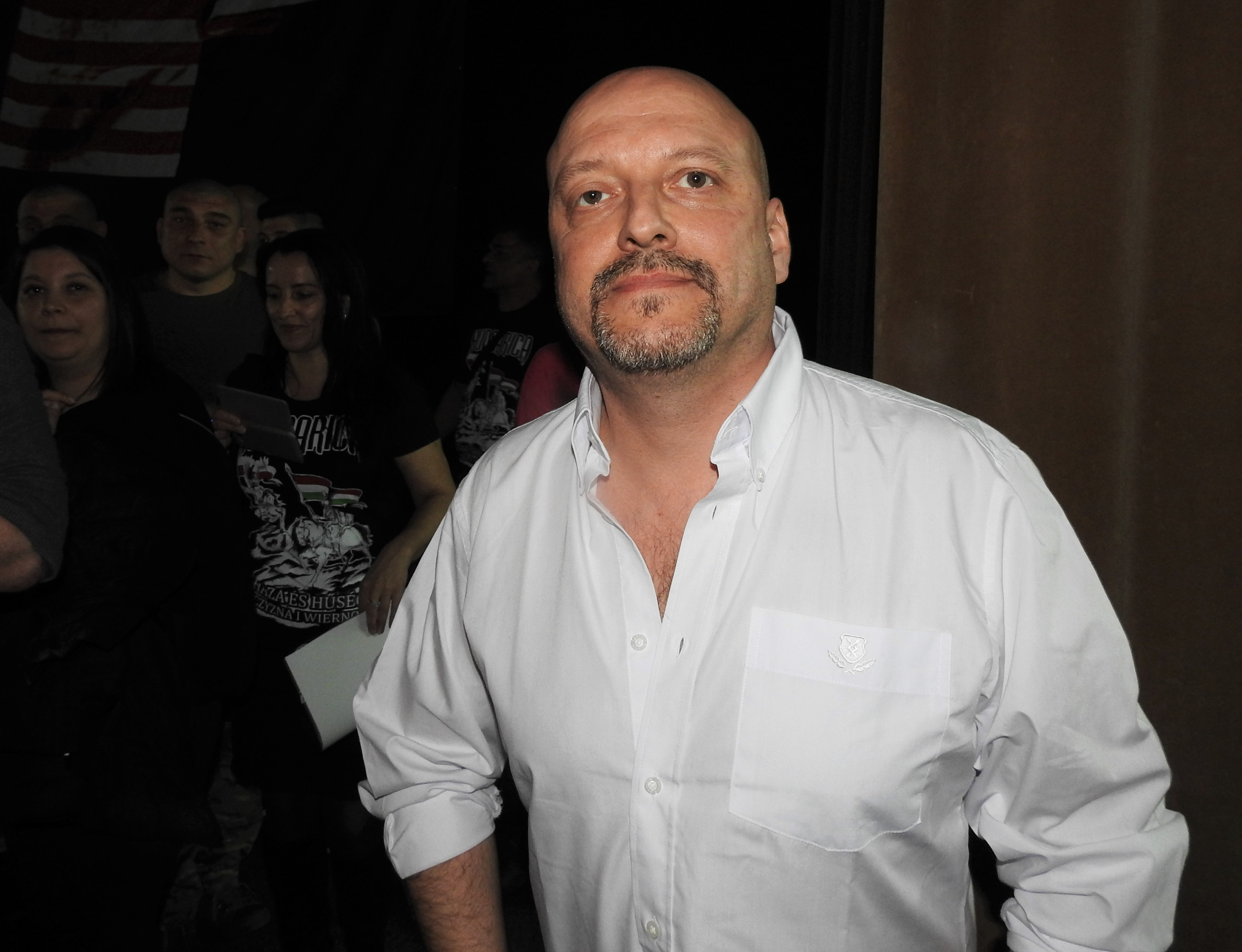 Norbert Mentes, guitarist of the Hungarica band - a Hungarian music group playing mostly national rock; performance at the Provincial Culture Center, Kielce, 23 March 2019, during the Polish-Hungarian Friendship Days in Kielce.